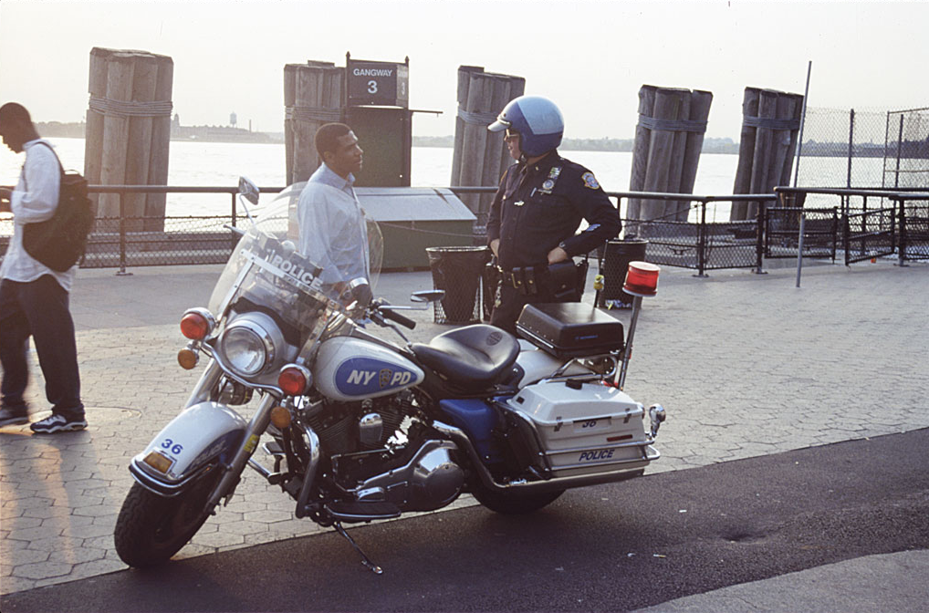 NYPD motorcylce police officer speaks with a passer-by